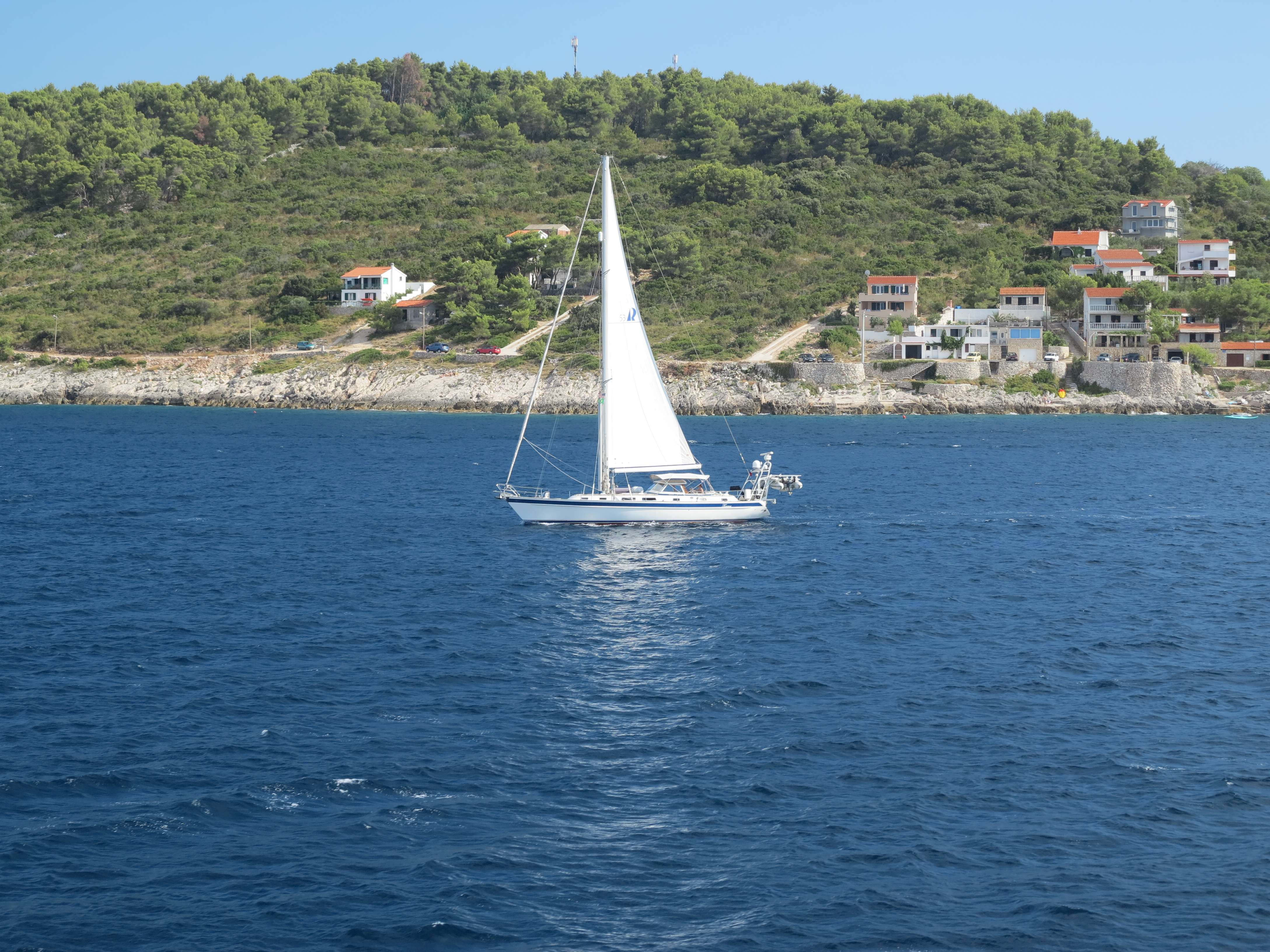 Rogač on the island Šolta / Croatia / Adriatic Sea.